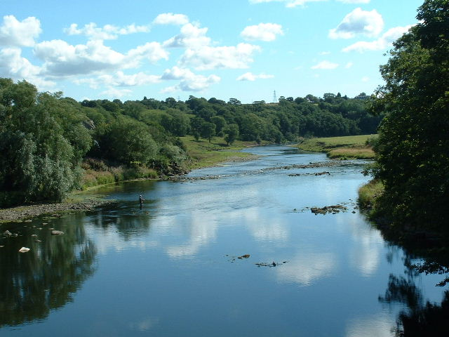 Ribble. River south of Ribchester bridge